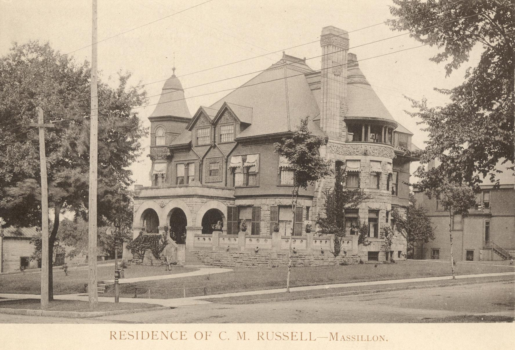 Image of the home of Charles M Russell, Massillon, Ohio by the architect William G. Gibbons, with modifications by C.F. Schweinfurth